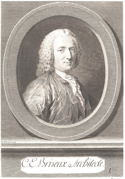 Charles-Etienne Briseux (1680 - 1754), portrait.